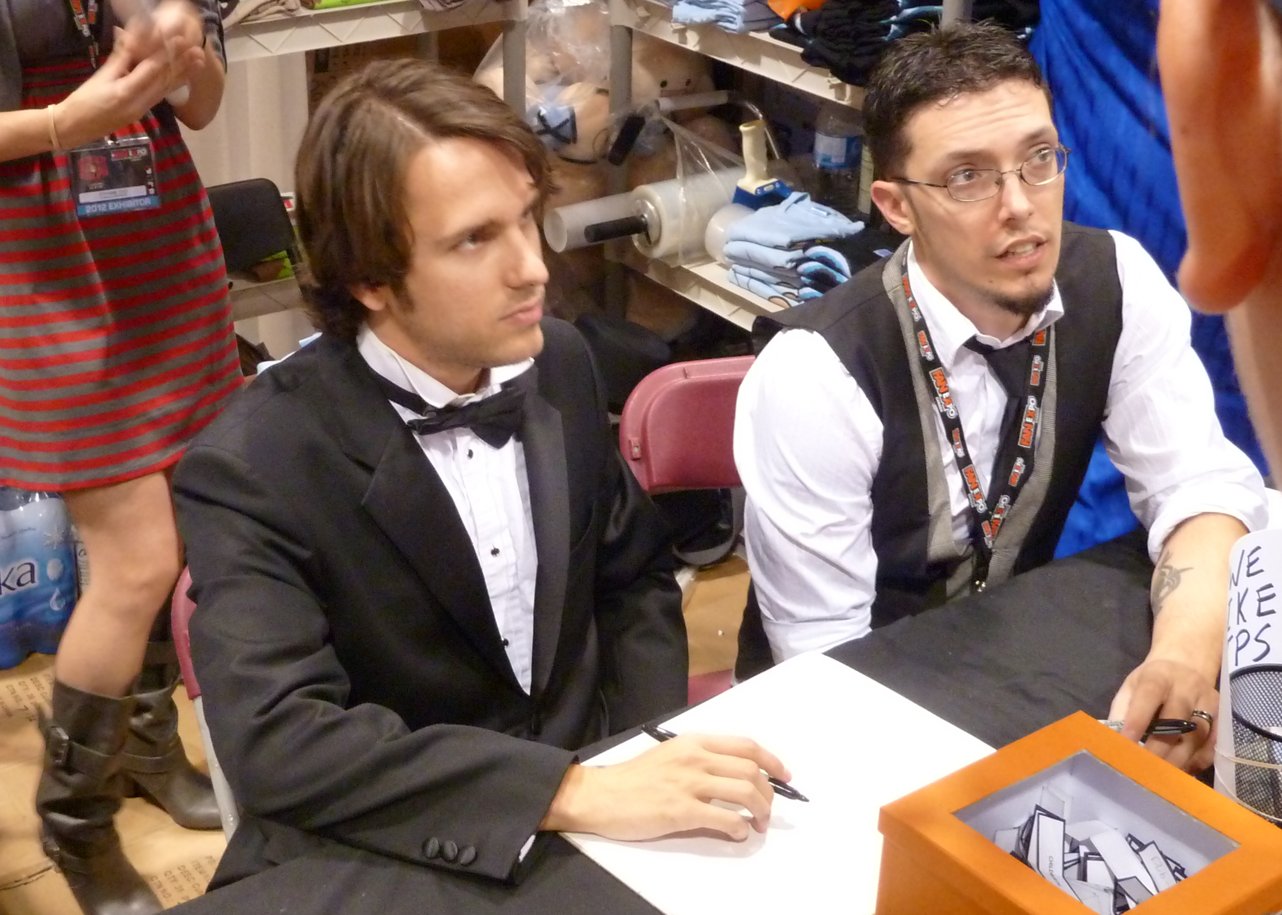 Rob DenBleyker and Shawn Coss, artists of Cyanide and Happiness